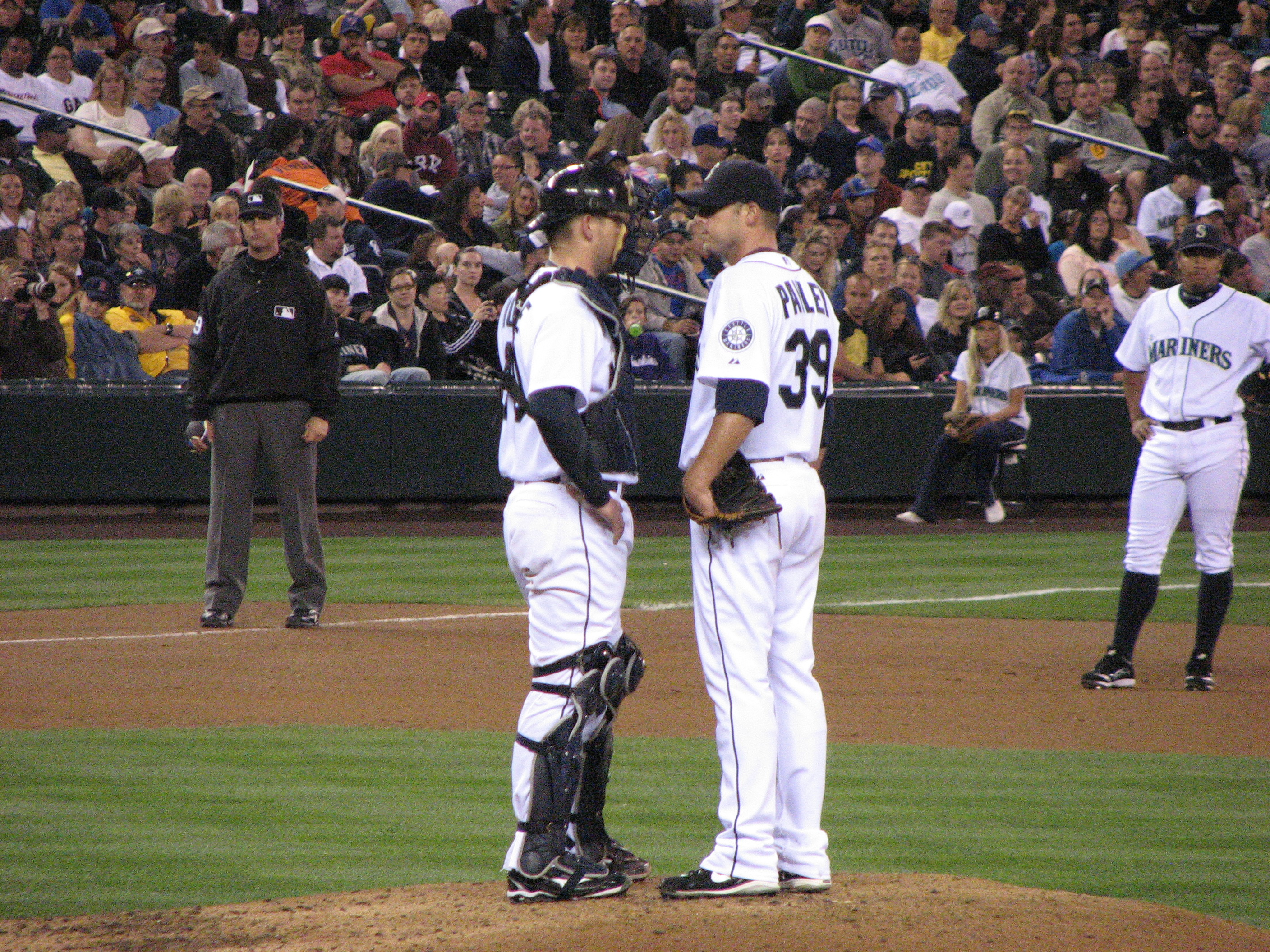 Adam Moore (left) and David Pauley